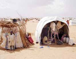 Displaced persons' shelter in Darfur